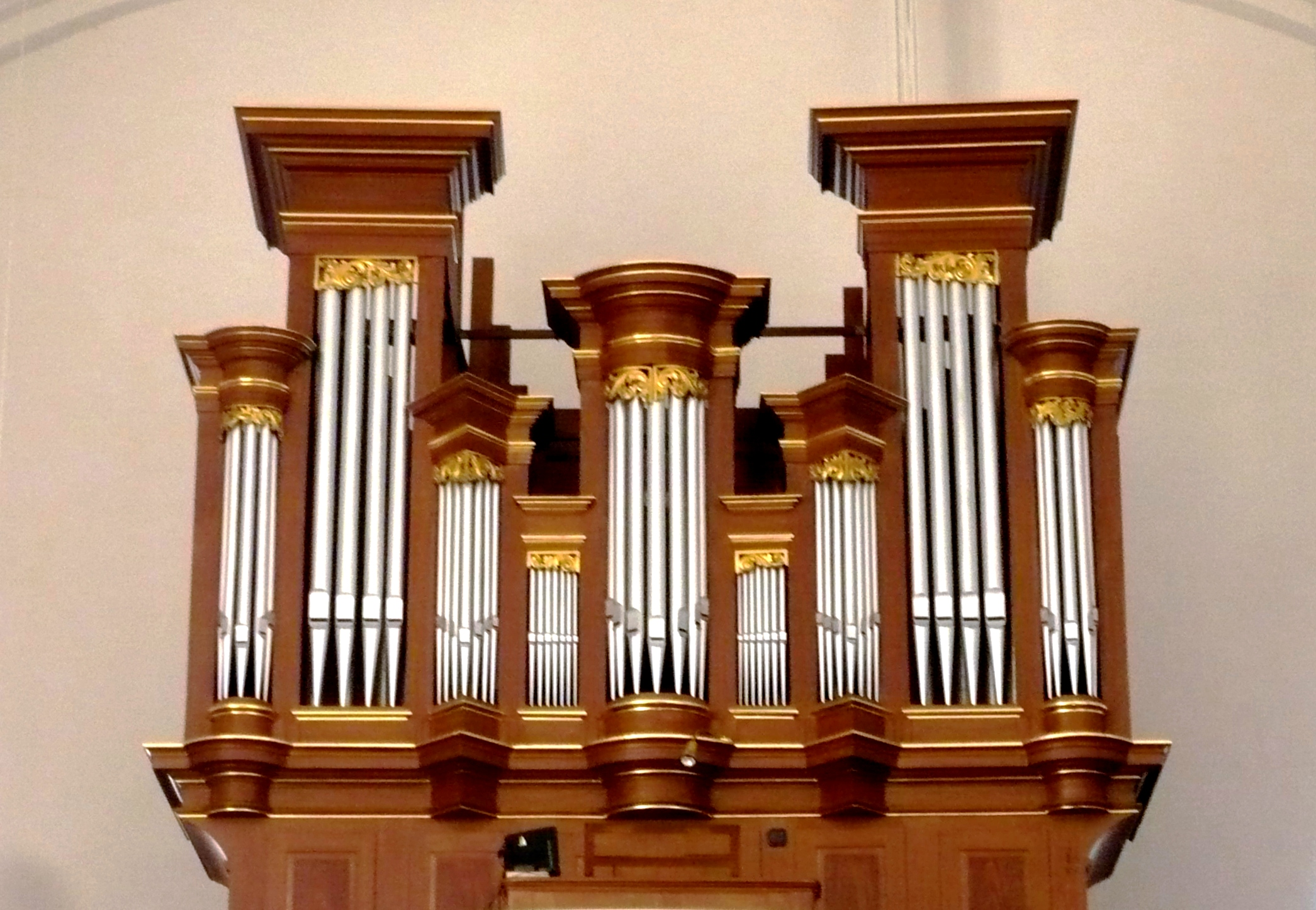 Sauer-Orgel in Heilig-Geist-Kirche at Fulda